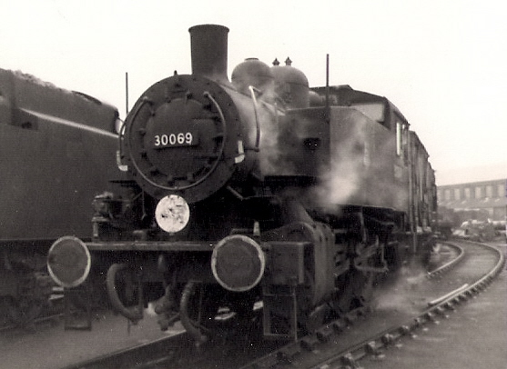 Shunting Steam Engine 30069 at Eastleigh Works, Southern Region, British Railways.